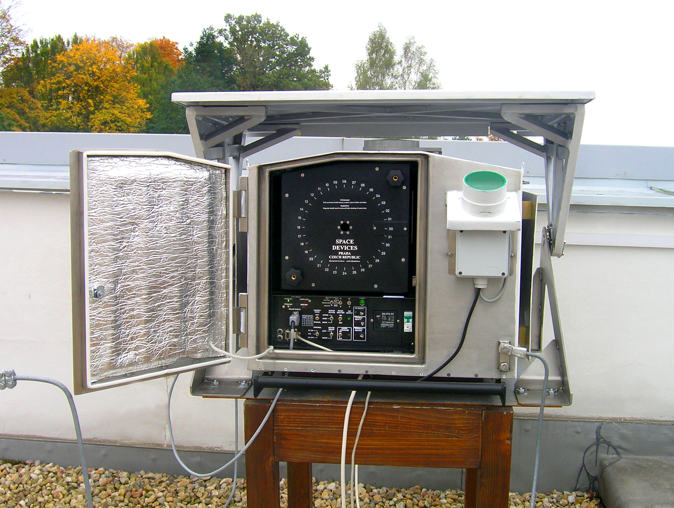 Fireball Camera at the Czech Astronomical Institute in Ondřejov